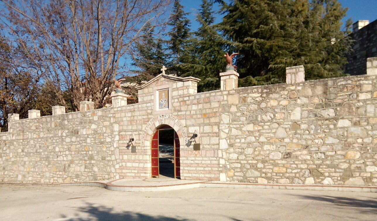 Patras, Monastery of Saint Nicholas - Paleomonastiro (Bala)- 6th century